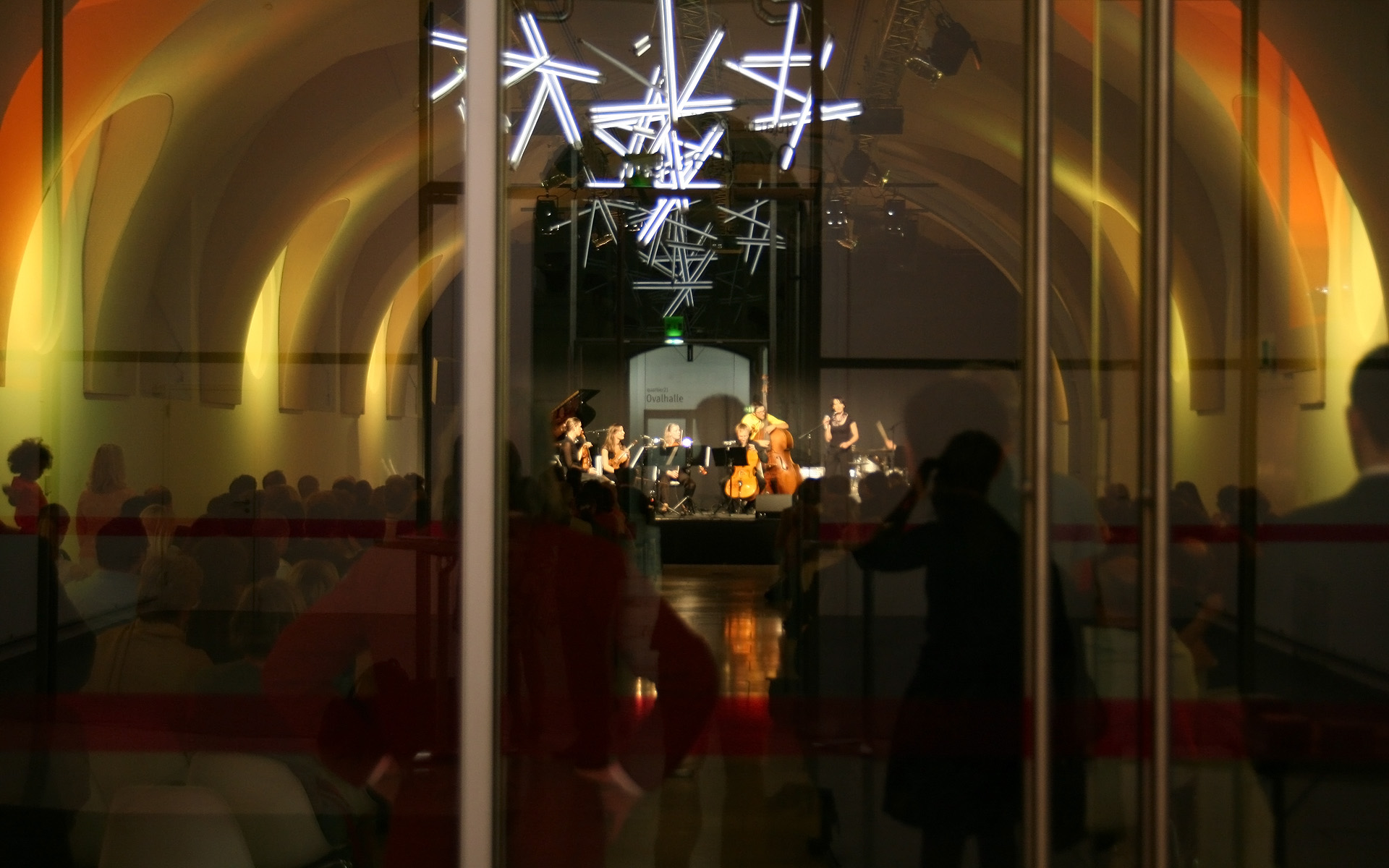 Estonian singer Siiri Sisask at the pre-opening of the literary festival O-Töne 2011 at the Museumsquartier in Vienna